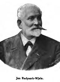 Jan Wjela